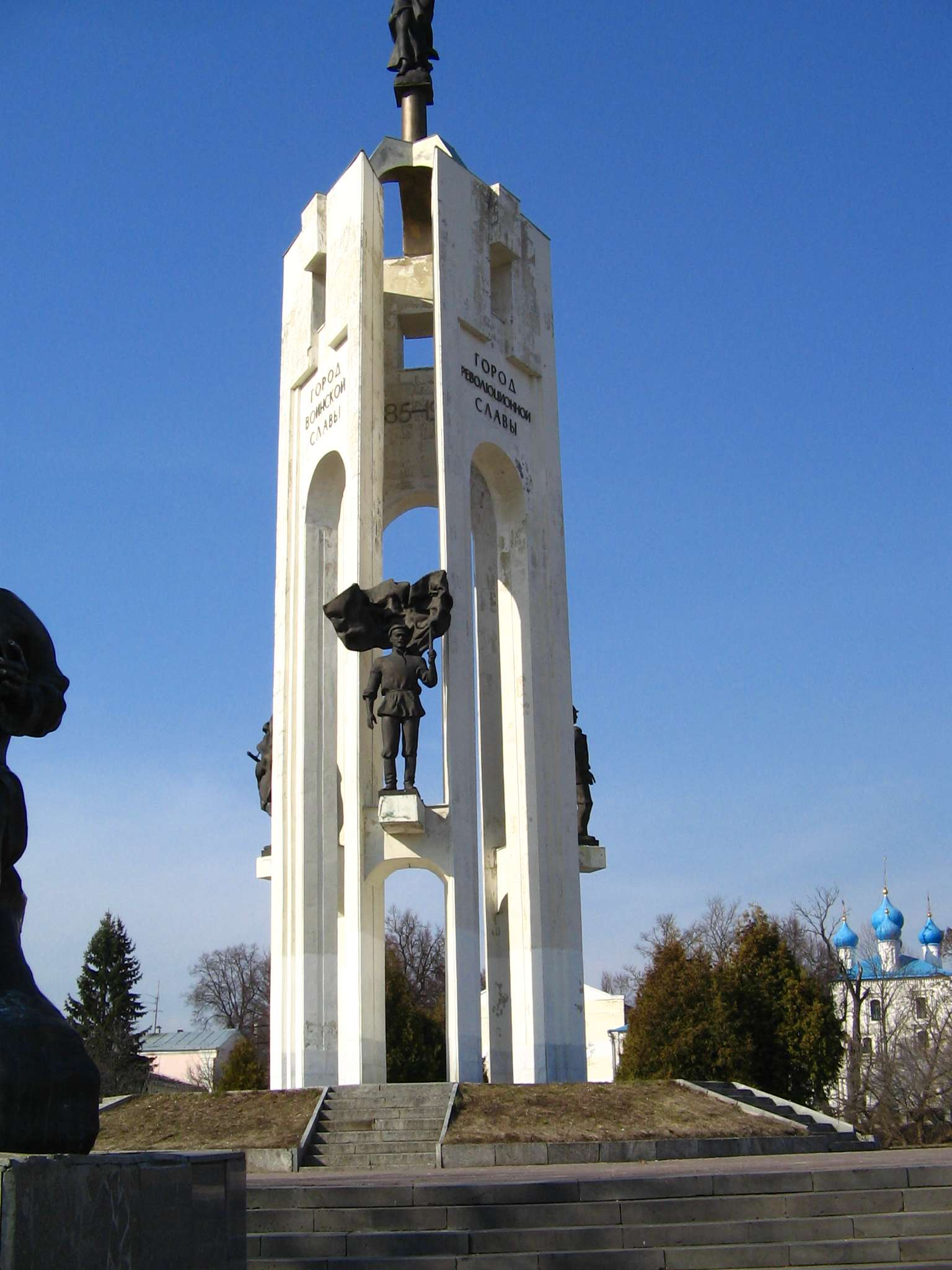 The central monument in Bryansk, Russia